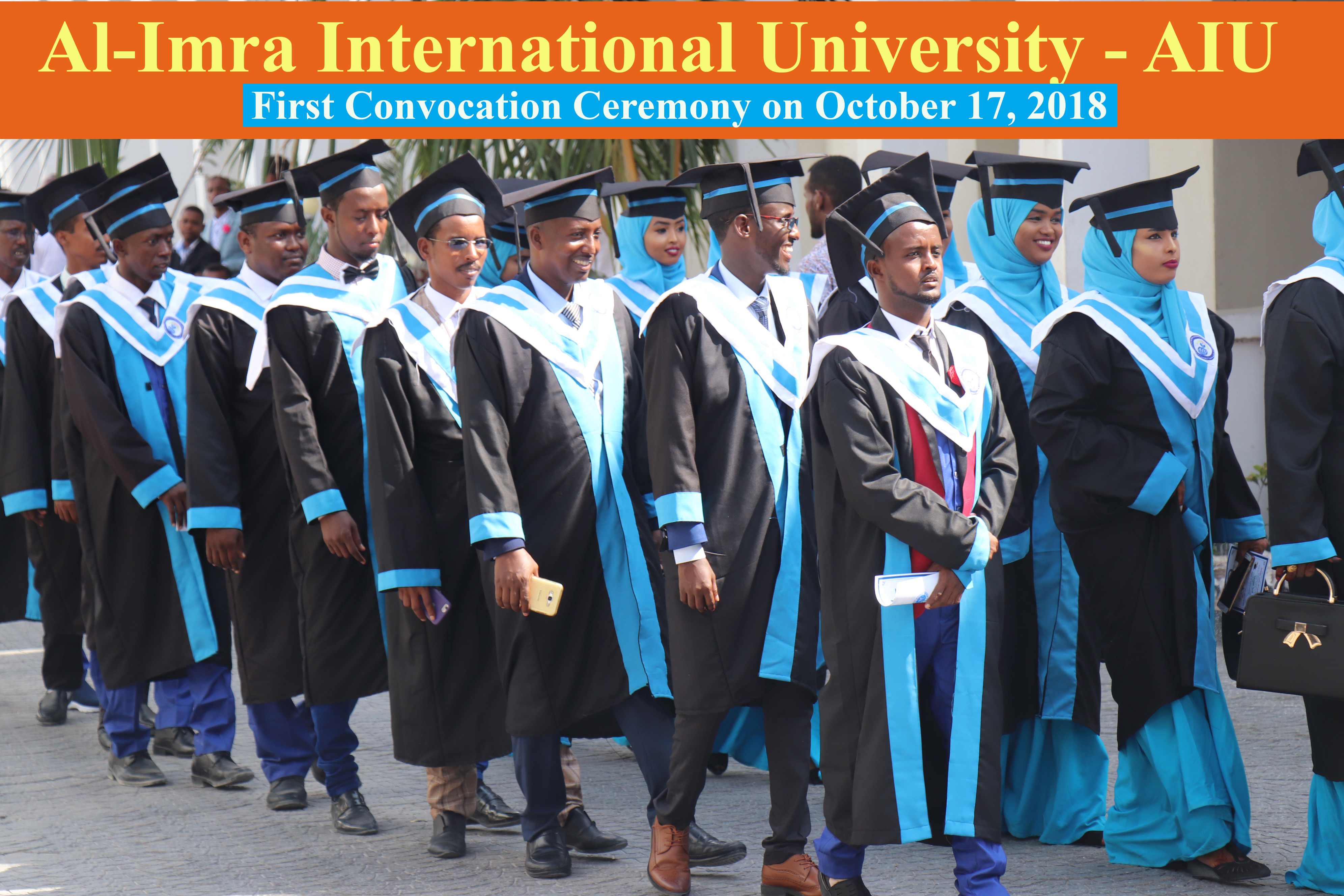 Graduates getting ready to enter the venue for the first AIU Convocation on October 17, 2018 Other information This photo is about the first Al-Imra International University Convocation ceremony on October 17, 2018